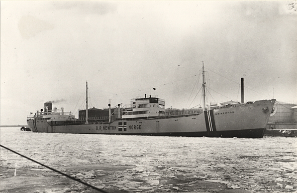 Kockums newbuilding oiler B.P. NEWTON, Skibs A/S Navalis, Oslo. Berthed at Copenhagen in the beginning of 1940. One of two "kvarstadships" who managed to reach England at the second breakout attempt 31.3.1942 (Operation Performance). Later sunk by the German submarine U510 off Guyana 8.7.1943. Callsign: LKLV Br.t.: 10324 Lloyds Register 1938-39 Nr 70343